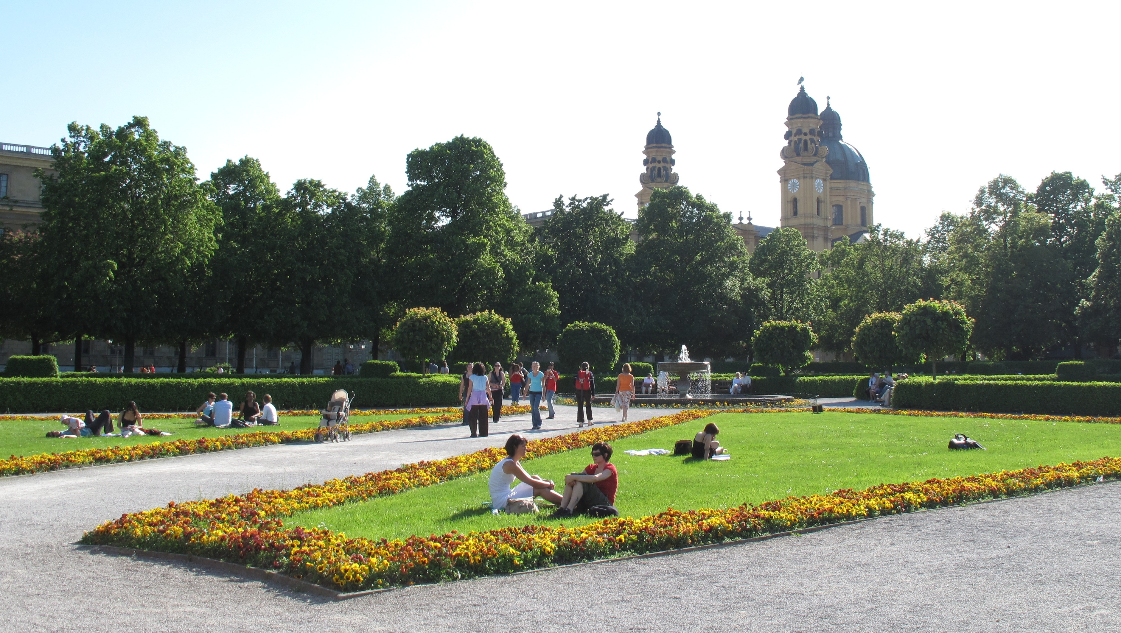 Hofgarten in the centre of Munich with the Theatinerkirche (church) in the background.